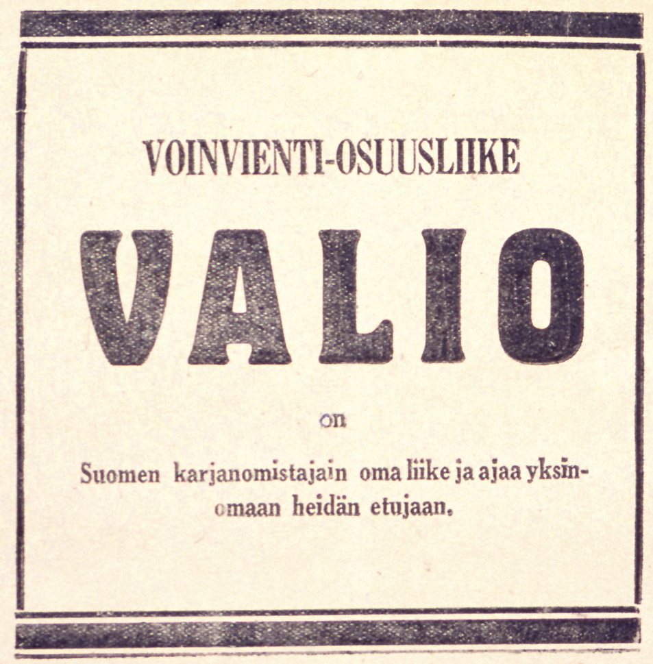 First Valio logo 1905